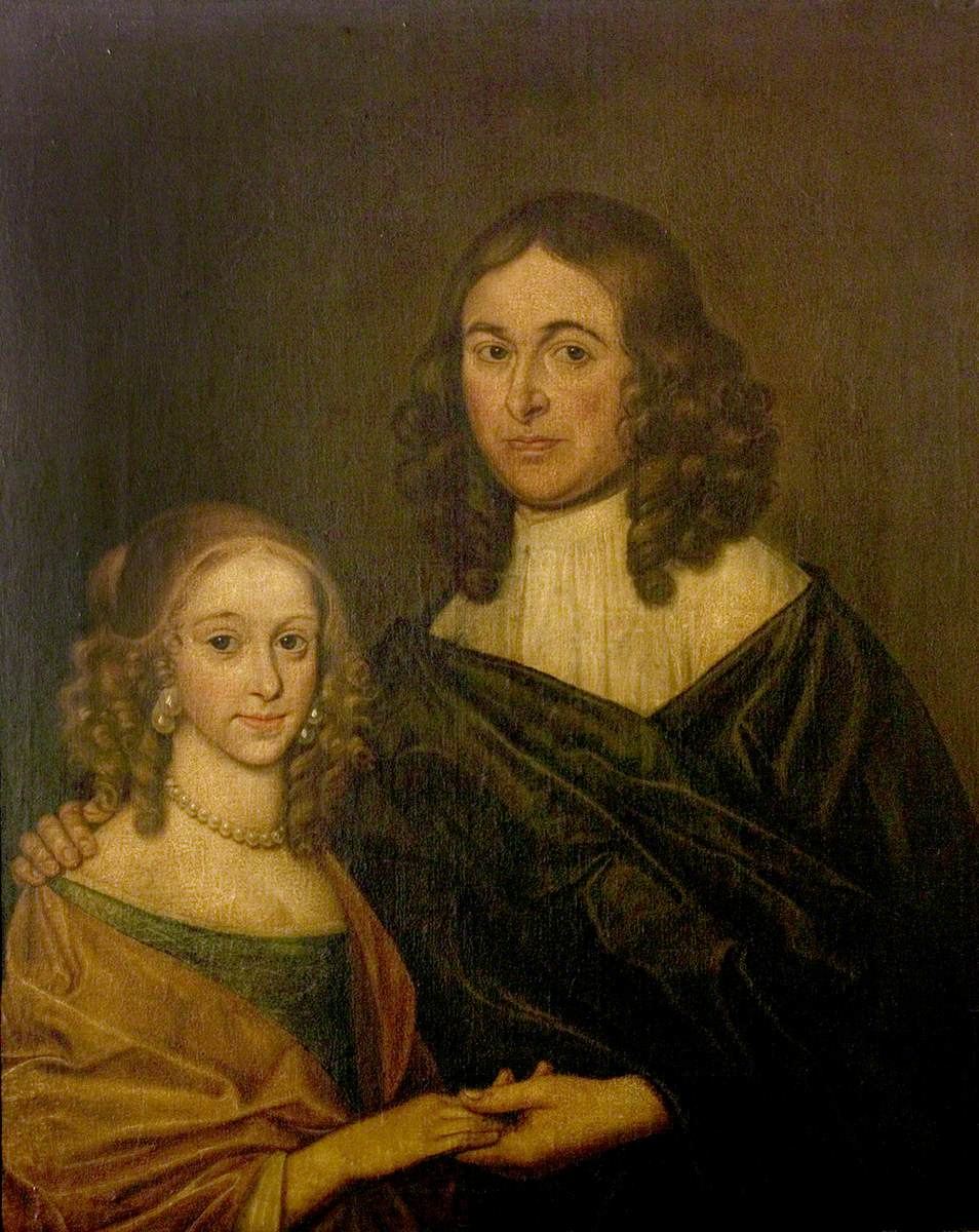 portrait of Shakespeare's granddaughter Elizabeth and her husband Thomas Nash